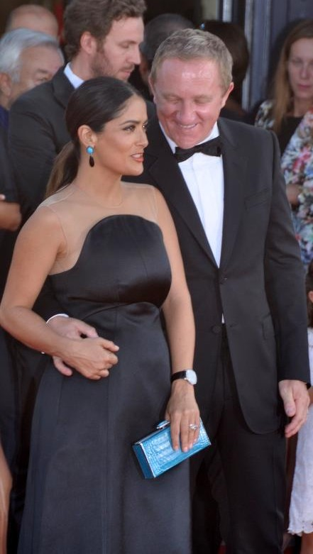 Salma Hayek and François-Henri Pinault at the Deauville American Film Festival